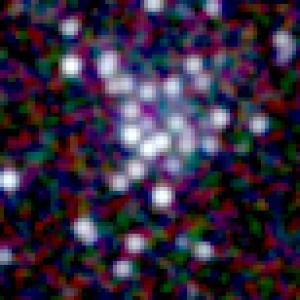 Galaxy NGC 458